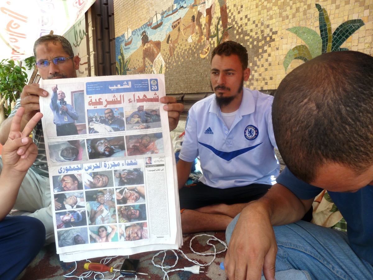 Original description: "Muslim Brotherhood doctors hold up newspaper with photos of their supporters killed in a confrontation with the Egyptian military on July 8. Photo: VOA/Sharon Behn"